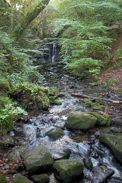 Wharnley Burn Water Fall